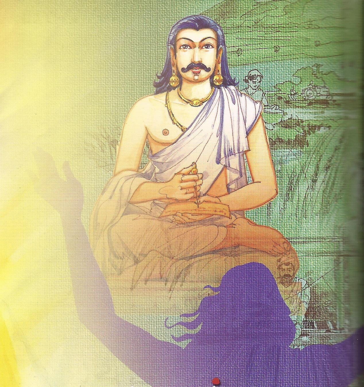 KAMBAR